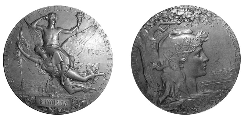 The medal awarded to O.D. Khvolson at the 1900 Exposition Universelle Internationale, a world's fair held in Paris. The medal is the work of Jules-Clément Chaplain, a famed medalist of the Art Nouveau movement.